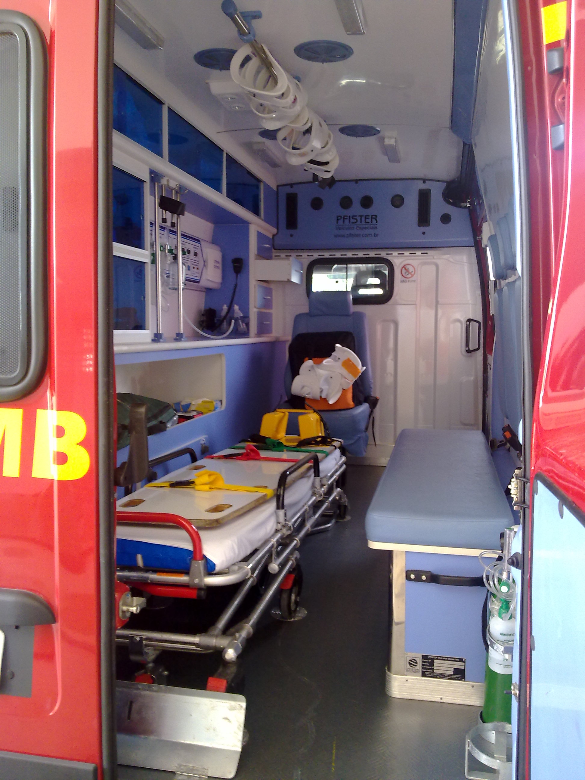 Ambulance in Brazil.